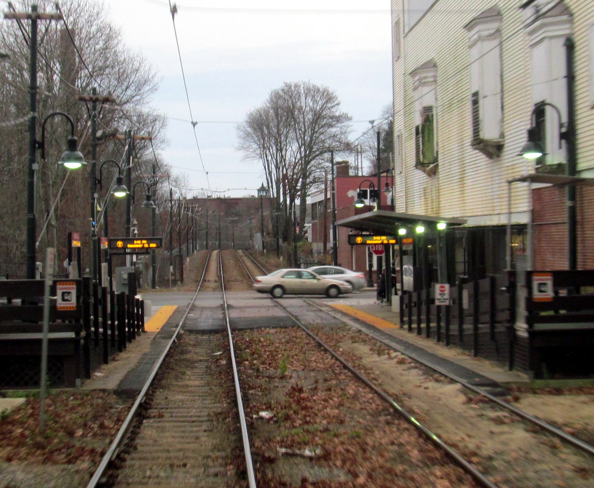 Central Avenue stop on the Ashmont-Mattapan Line; inbound platform is on the right